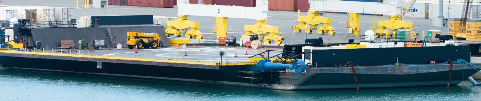 This is SpaceX's autonomous spaceport drone ship Of Course I Still Love You docked in the Cape.